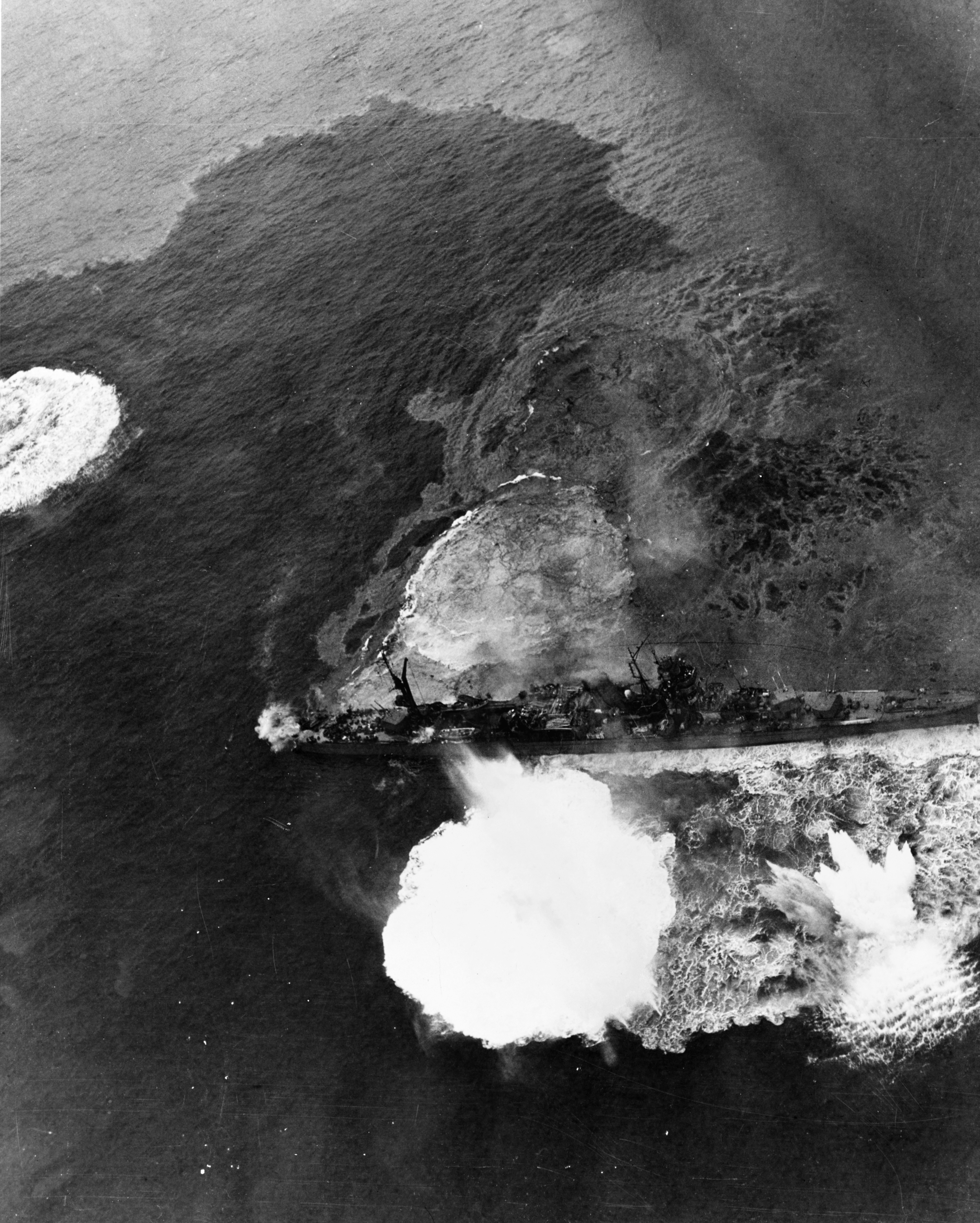 Operation "Ten-Go", 7 April 1945: The Japanese light cruiser Yahagi under attack by U.S. planes. At 1246 hrs, during the first wave, a torpedo hit Yahagi directly in her engine room, killing the entire engine room crew and bringing her to a complete stop. One direct hit can be seen bursting on the fantail, as near-misses straddle her. The photo was taken before turret no. 2 was hit by a bomb.